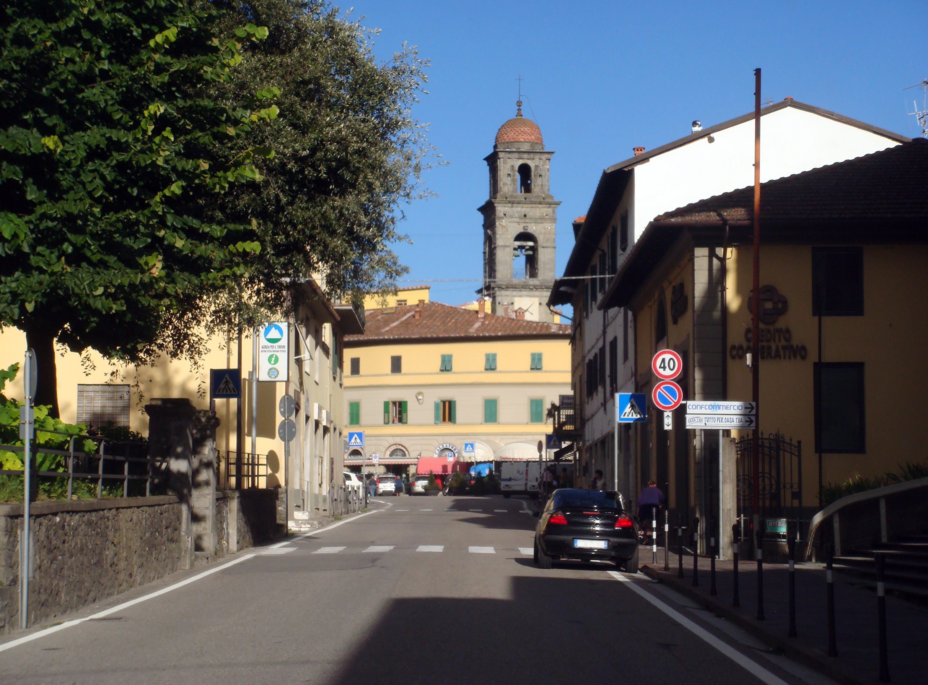 Main street in San Marcello Pistoiese